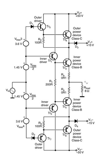 Prikaz_10.11